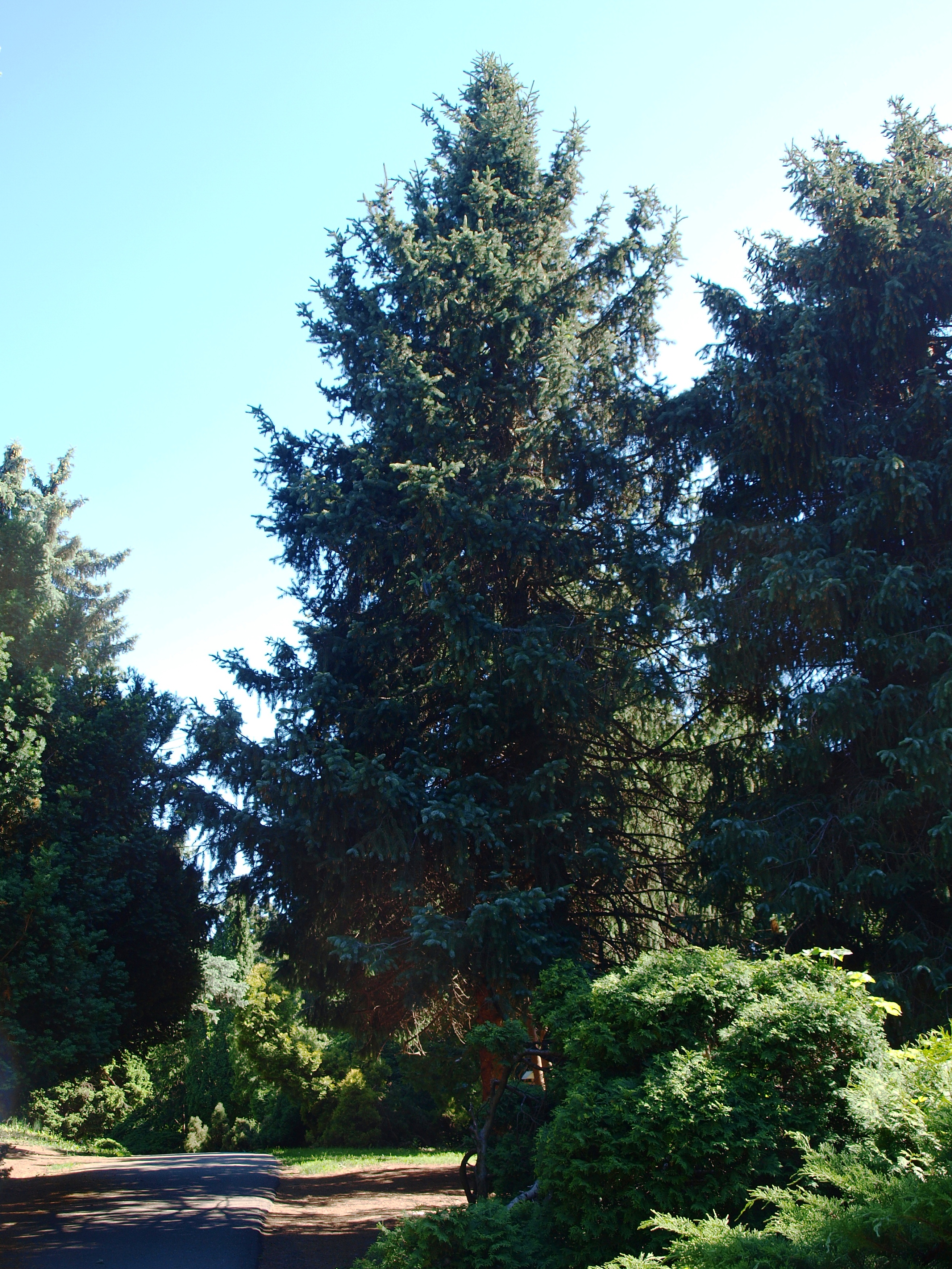 Picea schrenkiana in National M. M. Grishko botanical garden (Kiev)